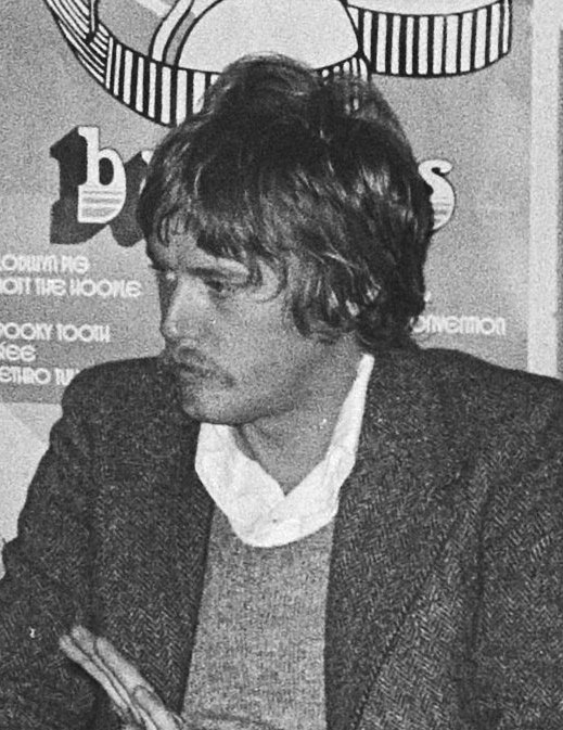 Flying Burrito Bros giving a press conference in the Birdsclub, Amsterdam (NL), 23 Nov. 1970. From left to right: Sneaky Pete Kleinow, Rick Roberts, Chris Hillman, Michael Clarke, Bernie Leadon